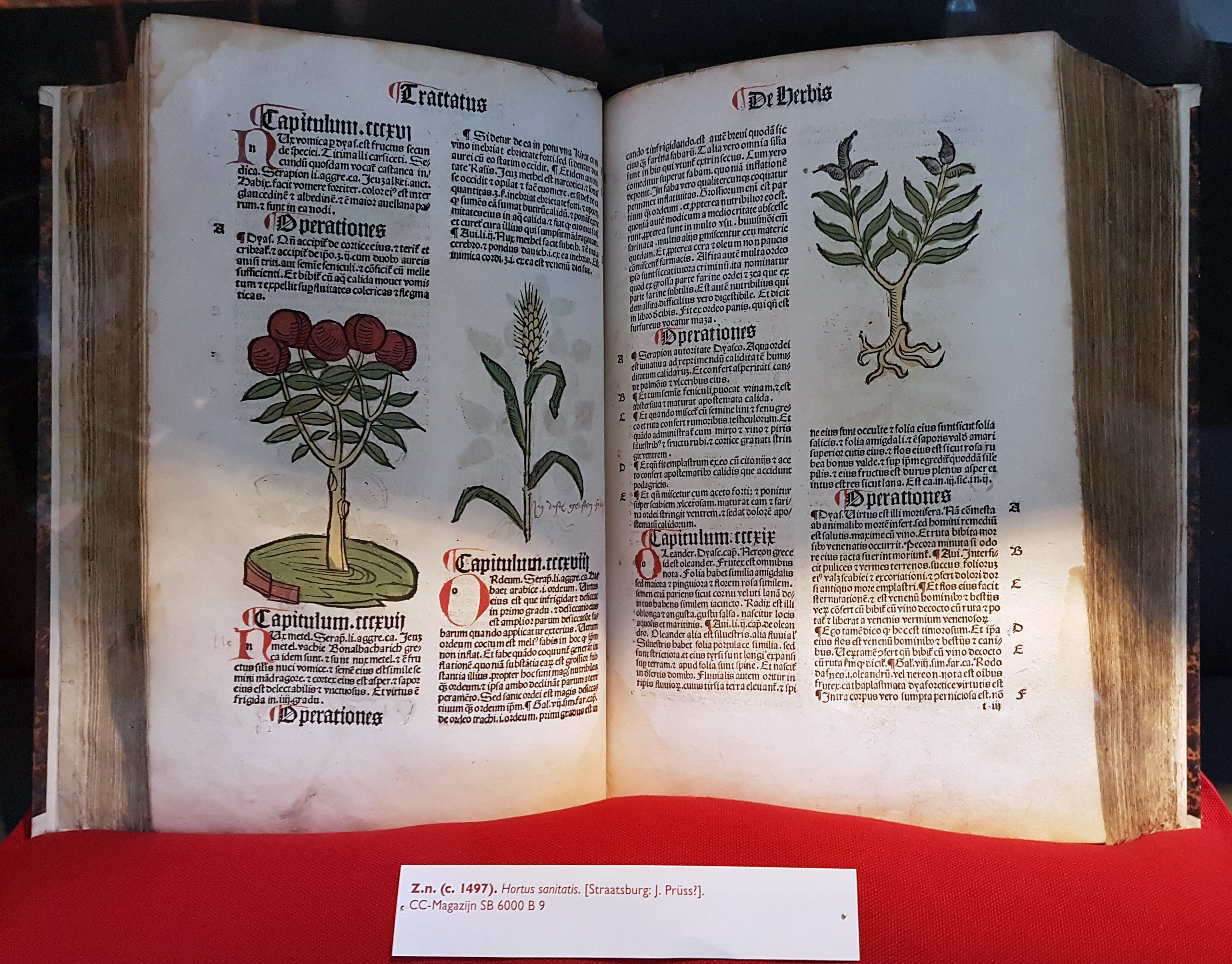 N.N., Hortus sanitatis (Straatsburg, L Füchs, 1497). Collection Centre Céramique (SB6000B9), Maastricht, the Netherlands.